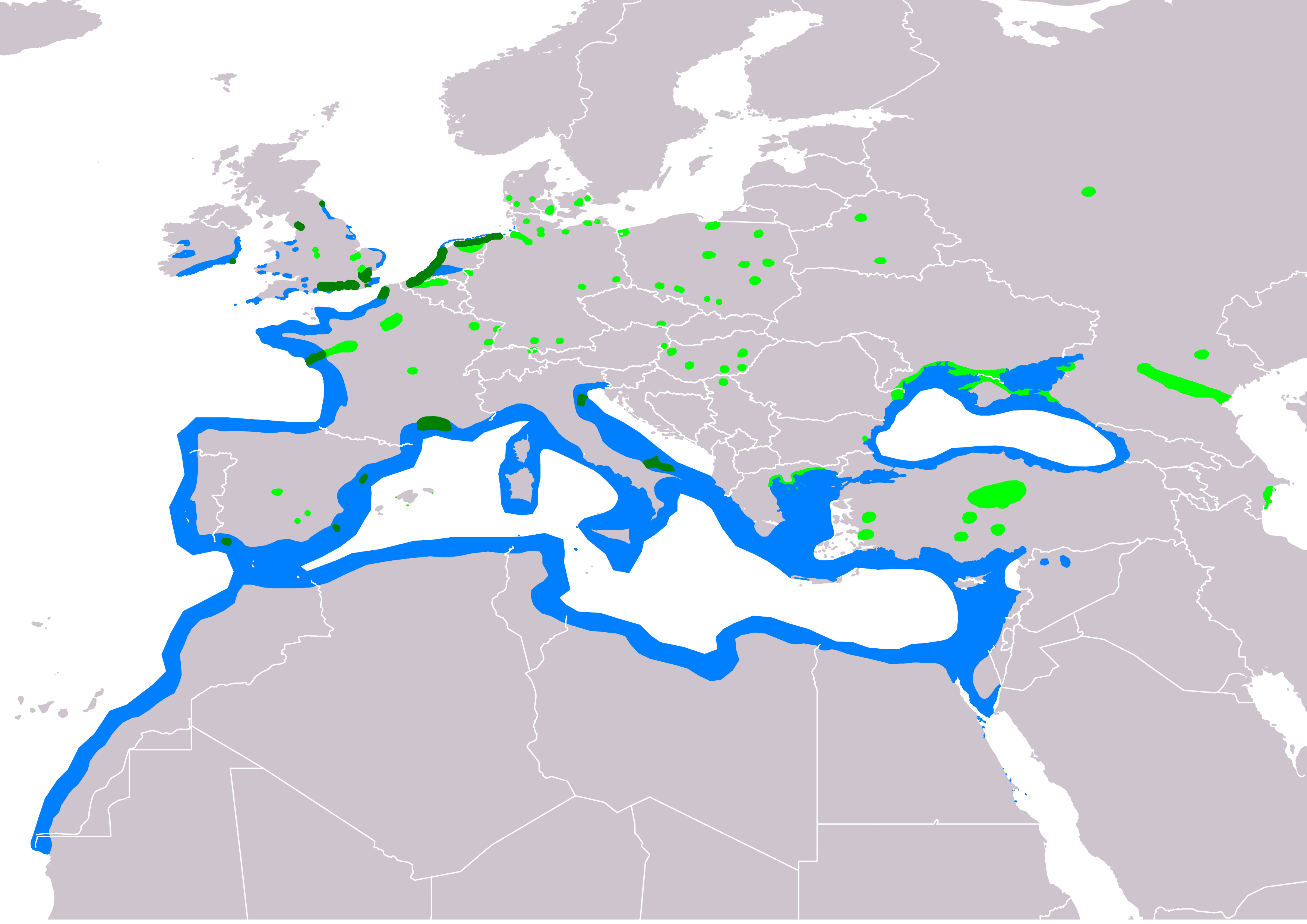 map of mediterranean gull (Ichthyaetus melanocephalus) according to IUCN version 2018.2 Legend: Extant, breeding (#00ff00), Extant, resident (#008000), Extant, non-breeding (#007fff)